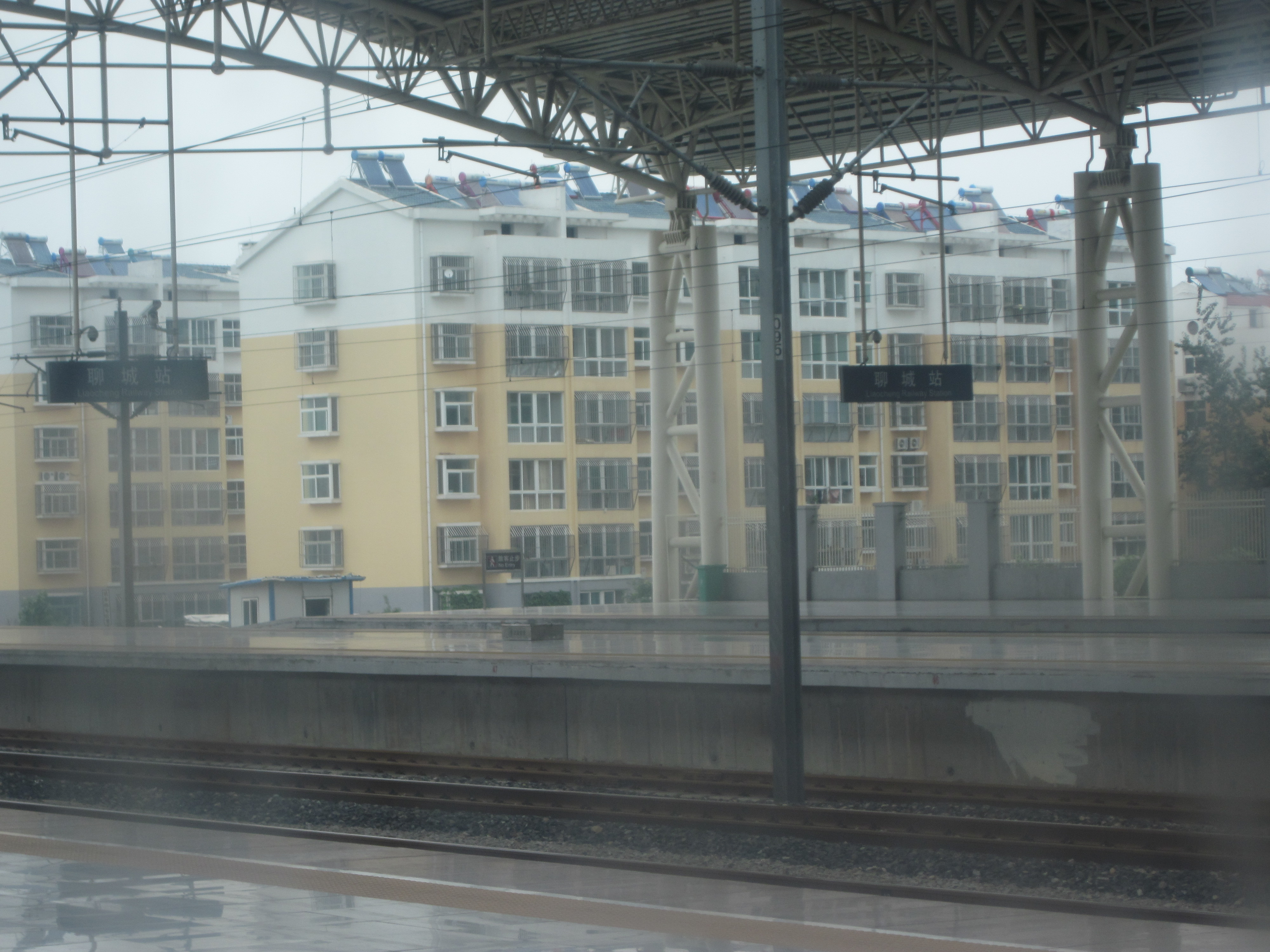 聊城站月台